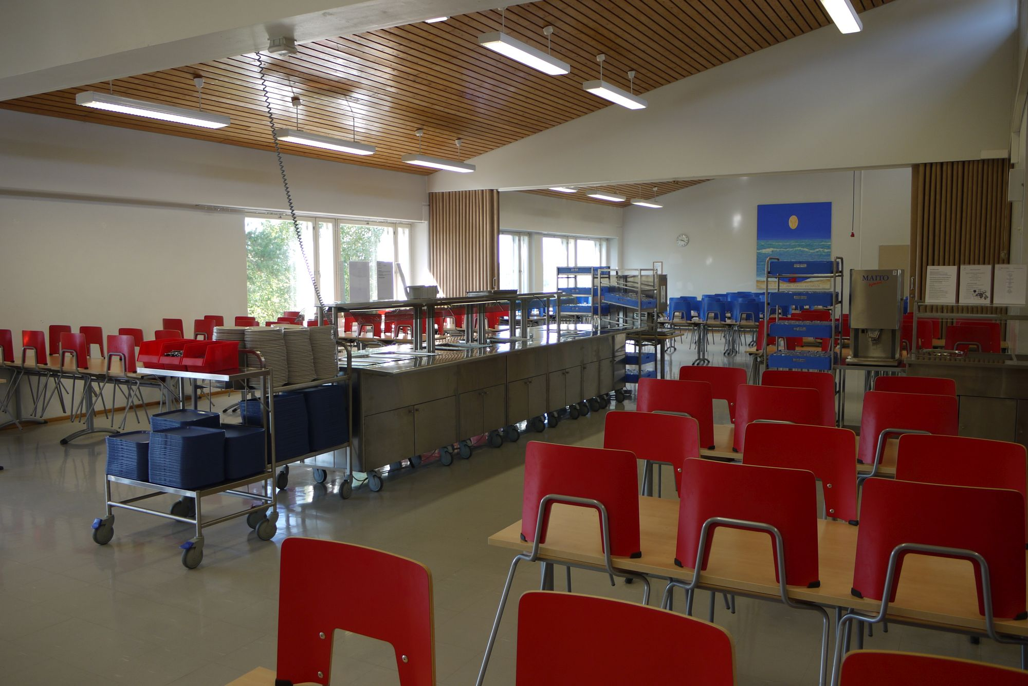 Canteen of Haukilahti upper secondary school (Haukilahden lukio)